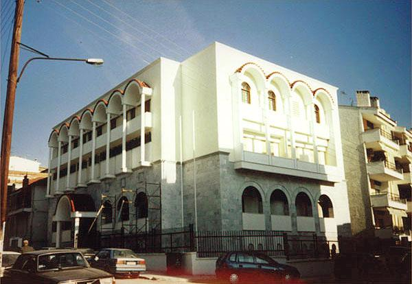 View from outside, image from the Ecclesiastical Museum, Serres, East Macedonia, Greece